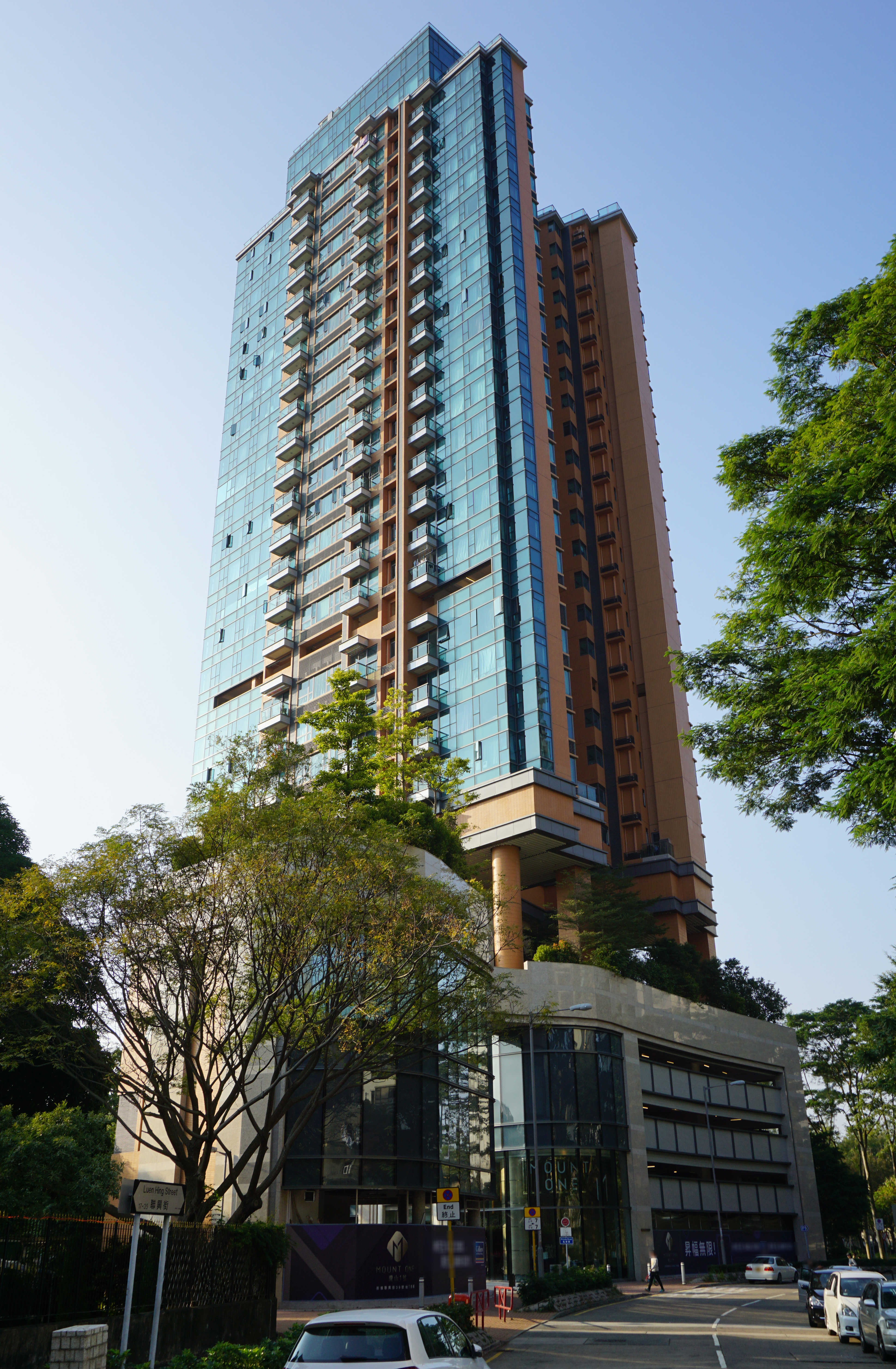 Mount One in Luen Wo Hui, Hong Kong.